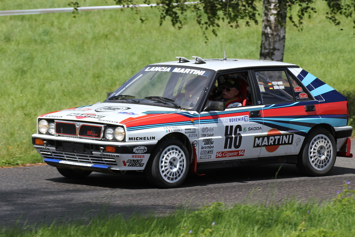 H6 Peter Arndt - Sigrid Arndt (DEU) - Lancia HF Integrale / group A / 1988 original factory race car